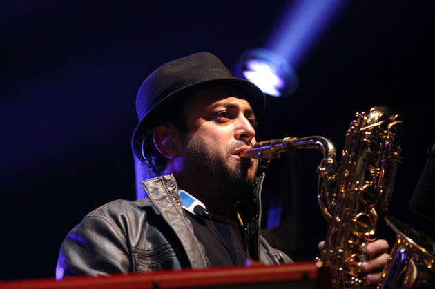 James King Saxophonist